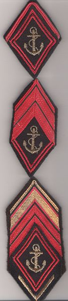 Insignes et galons de caporal puis caporal chef des troupes de marine. (Badges and rank of Corporal and Corporal Chief of Navy troops)